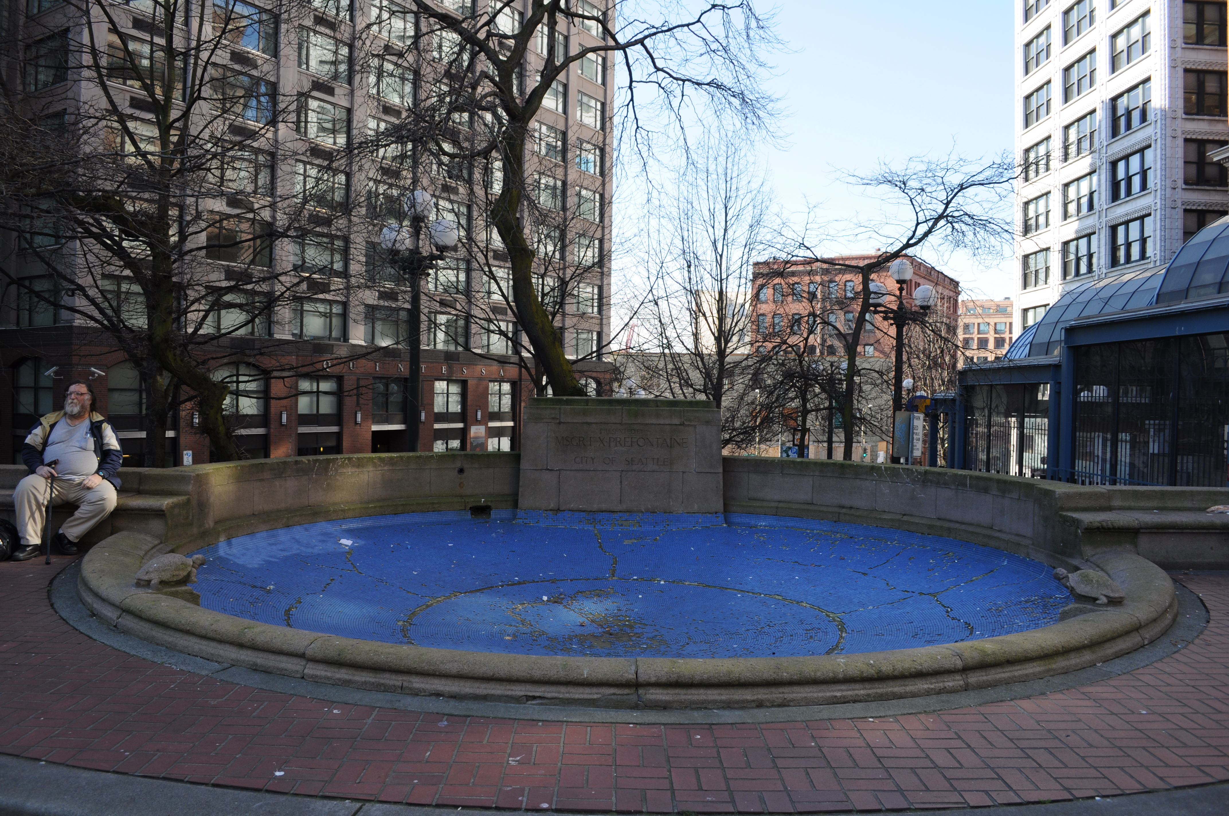 Prefontaine Fountain, Third & Yesler, Seattle, Washington, USA.